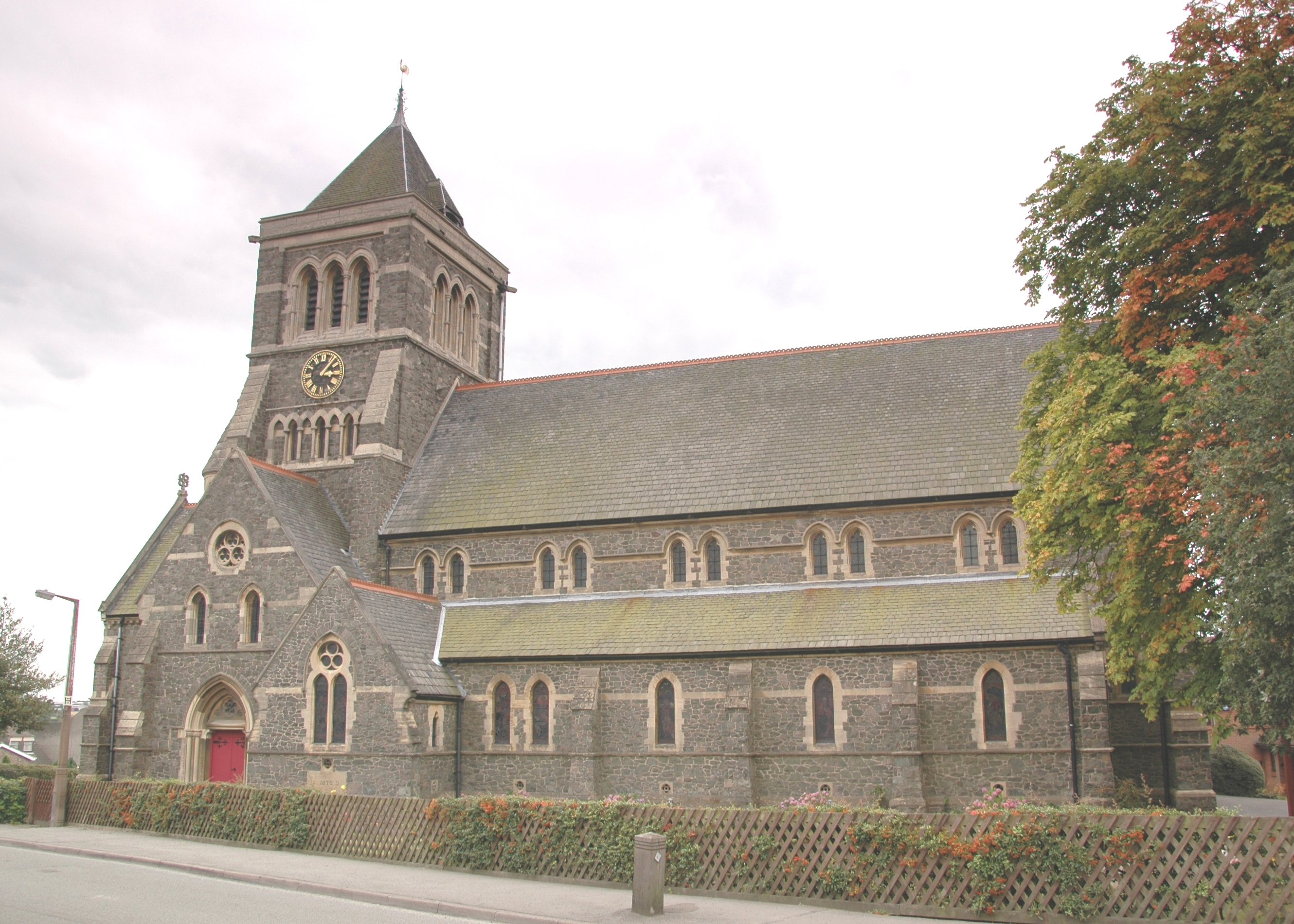 Church of England parish church of St John the Baptist, Hugglescote, Leicestershire, designed by JB Everard and completed in 1879, viewed from the north